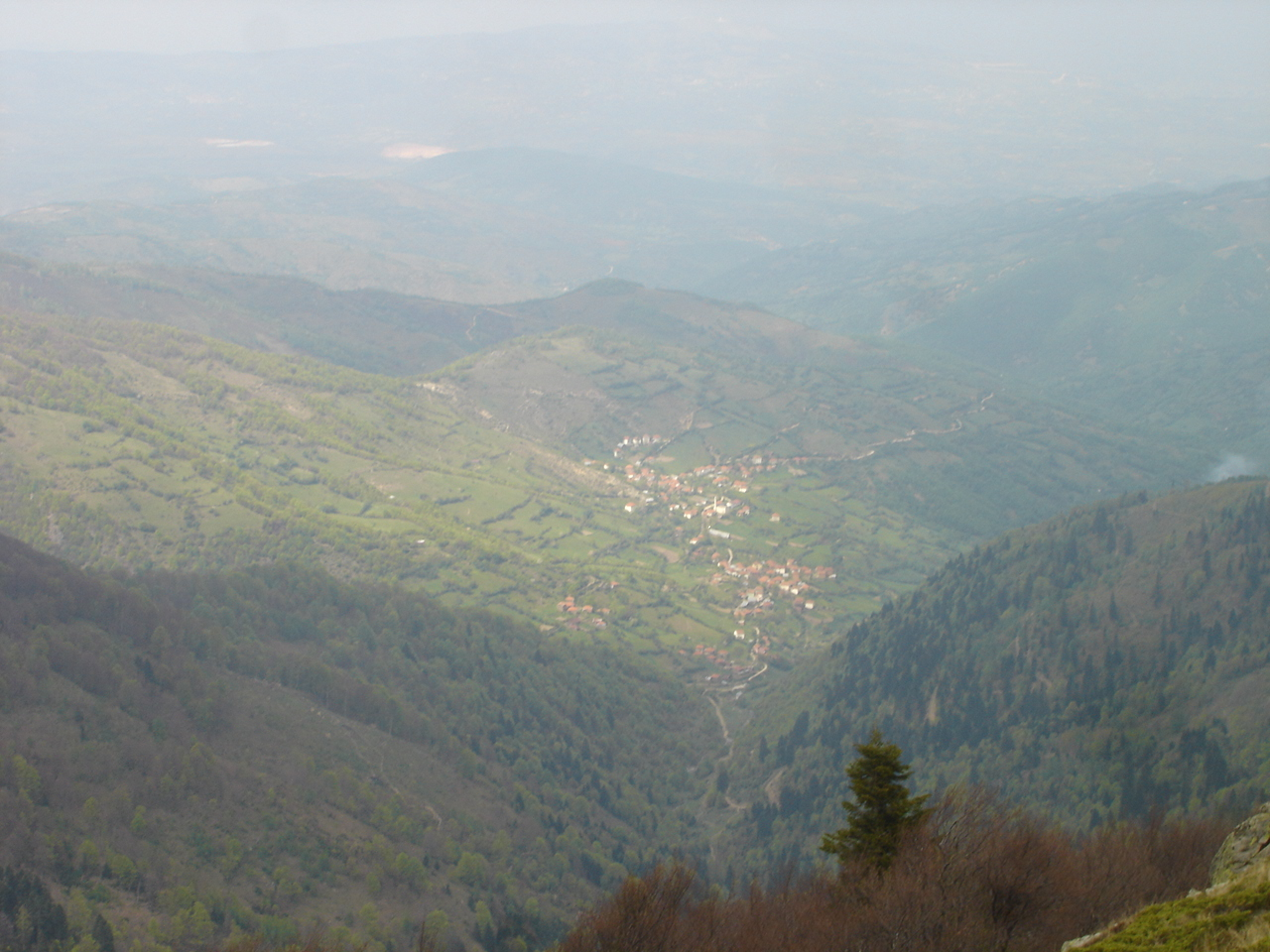 village of Crn Vrv, near Skopje, Macedonia